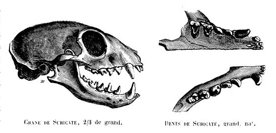 Meerkat skull and dentition